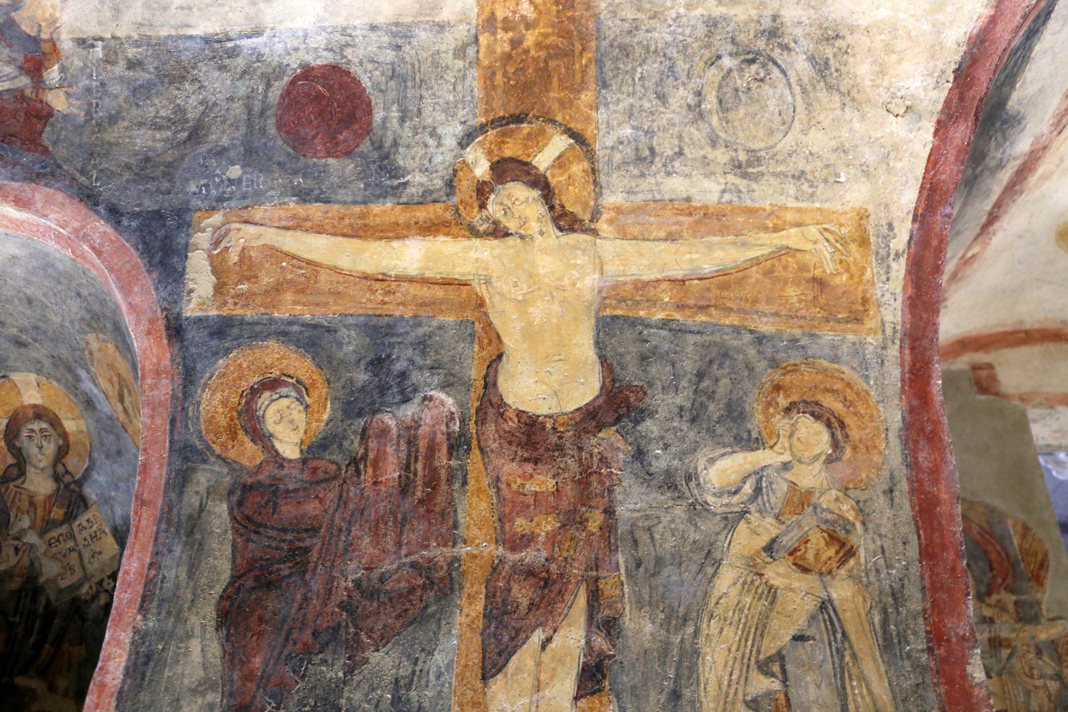 Epifanio Crypt